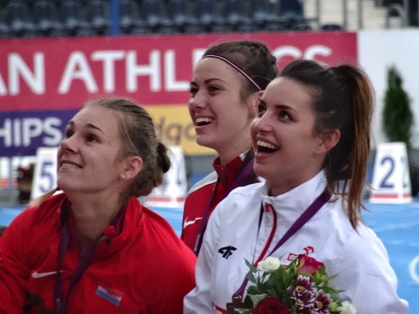 2017 European Athletics U23 Championships in Bydgoszcz, Poland; javelin throw women; medal ceremony